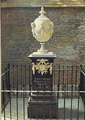 Memorial monument for Hermannus Boerhaave